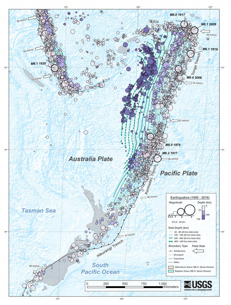 Earthquakes M5.5+ (1900-2016) australia plate Circle sizes indicate Magnitude, and colors indicate their depth.